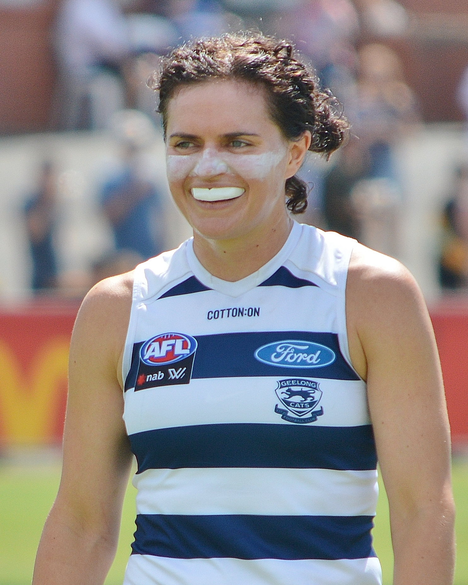 Meg McDonald with Geelong in the round 4 2020 AFLW match against Richmond at Queen Elizabeth Oval in Bendigo.